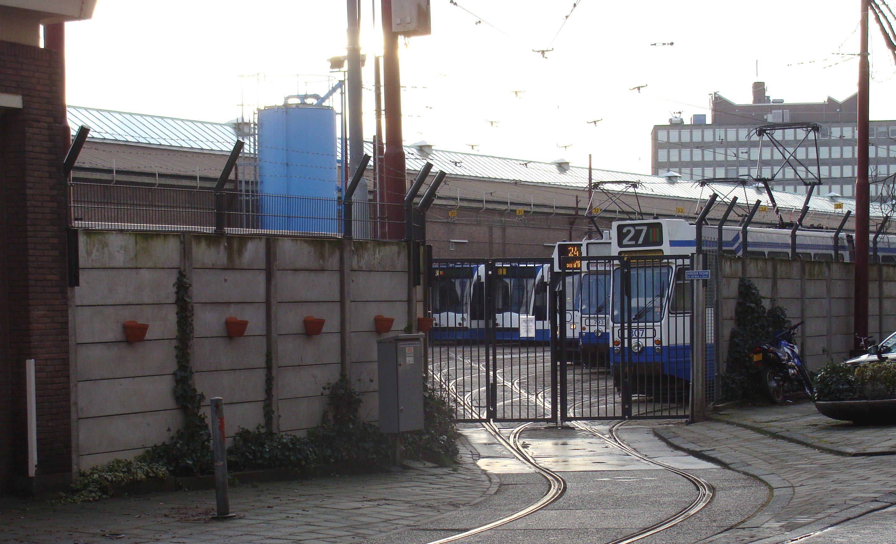 The side of "Remise Havenstraat", a tram depot in Amsterdam